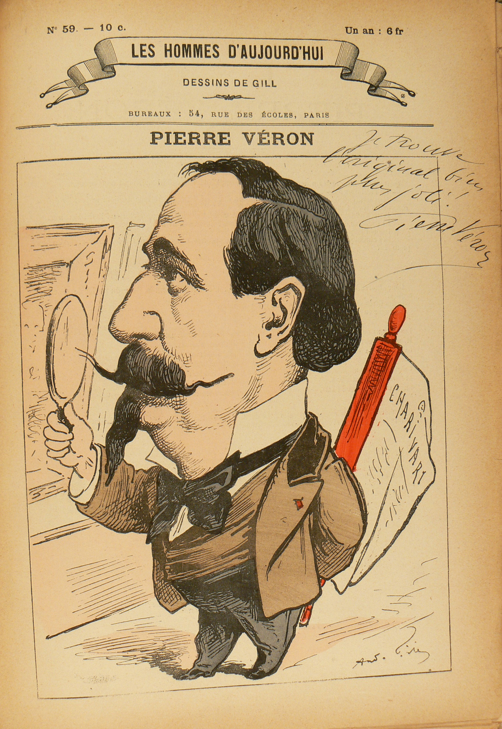 Caricature of Pierre Véron (1833 – 1900), a French writer, journalist, and librettist.